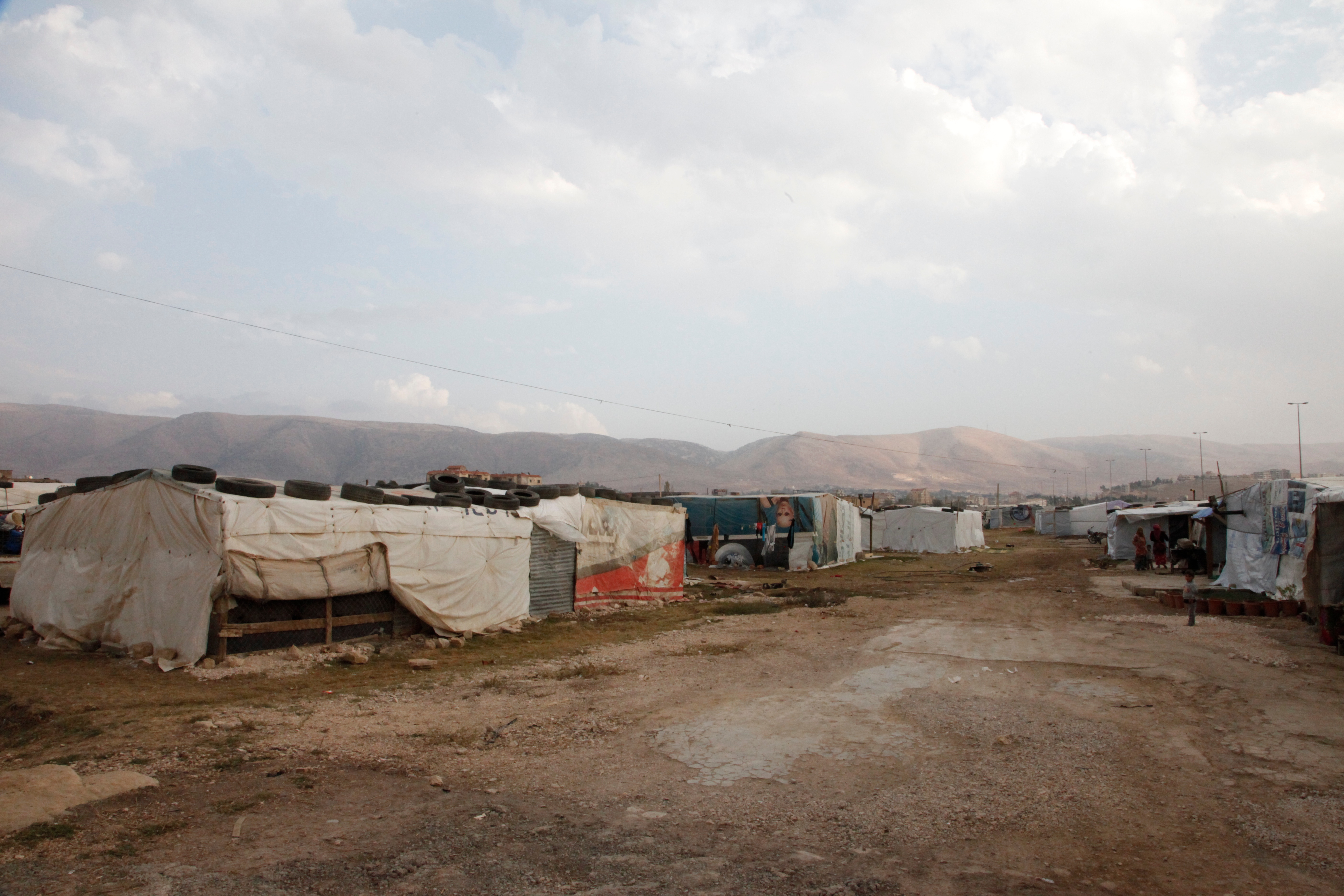 An 'informal tented settlement' in Lebanon's Bekaa valley. The mountains in the background form the border with Syria, just a few miles away. Millions of Syrian children face their worst winter yet as worsening weather and crowded refugee camps create the ideal conditions for the spread of life-threatening diseases such as pneumonia. The UK will provide winter tents, warm clothing and heaters as part of an allocation of nearly £90 million to help hundreds of thousands of Syrians, especially children, cope with the onset of winter. There are over 800,000 Syrian refugees in Lebanon now - 400,000 of whom are children. For full details on how the UK is helping people affected by the conflict in Syria, please Picture: Russell Watkins/Department for International Development